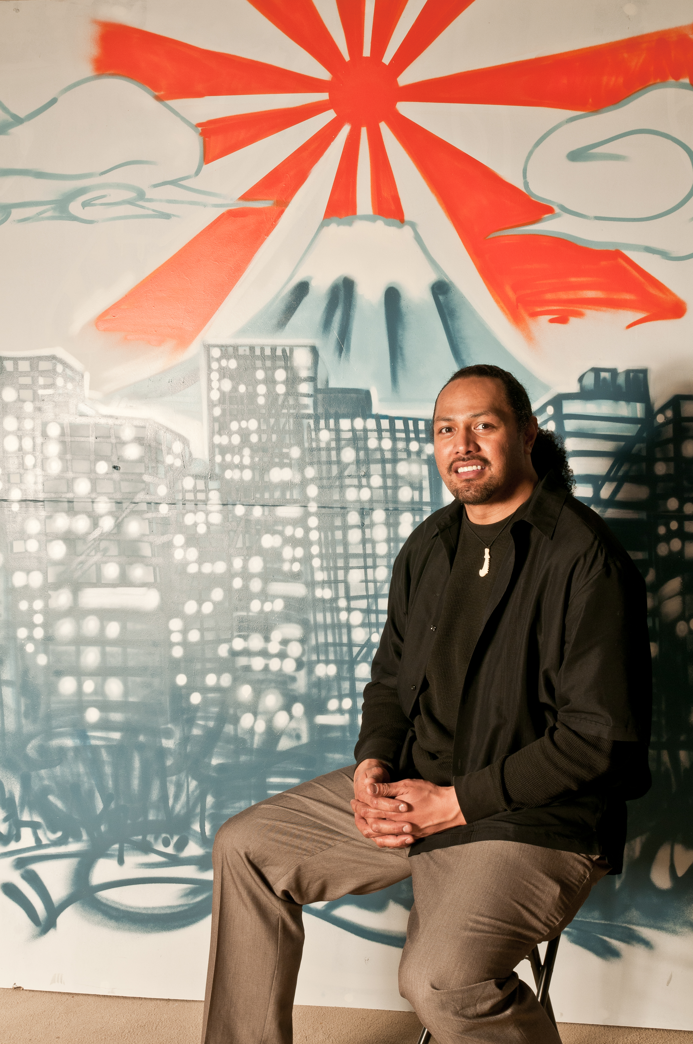 cmb Photography has teamed up with Mao Tosi and some of Alaska's best talents to fund-raise for Japan earthquake victims thru what we do best.Special background provide by Local Artist "BISCO" 100% PROCEEDS GO TO RED CROSS (JAPAN)